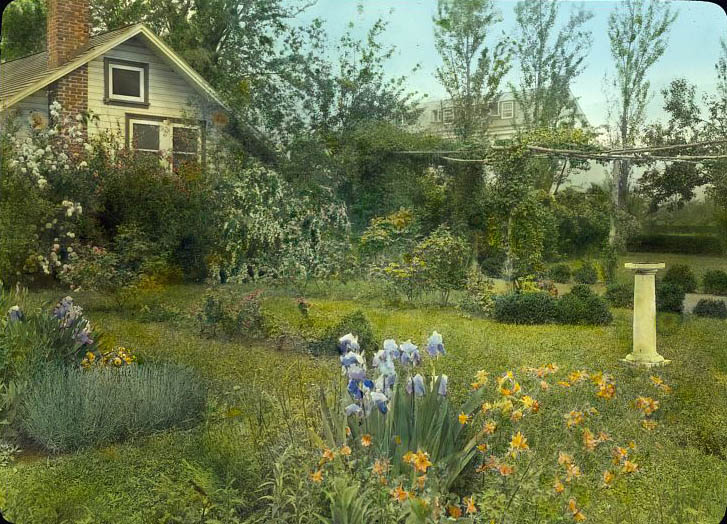 Pennsylvania School of Horticulture for Women, Old Limekiln Road, Ambler, Pennsylvania Demonstration kitchen and flower garden, From the Frances Benjamin Johnston Collection at the Library of Congress.